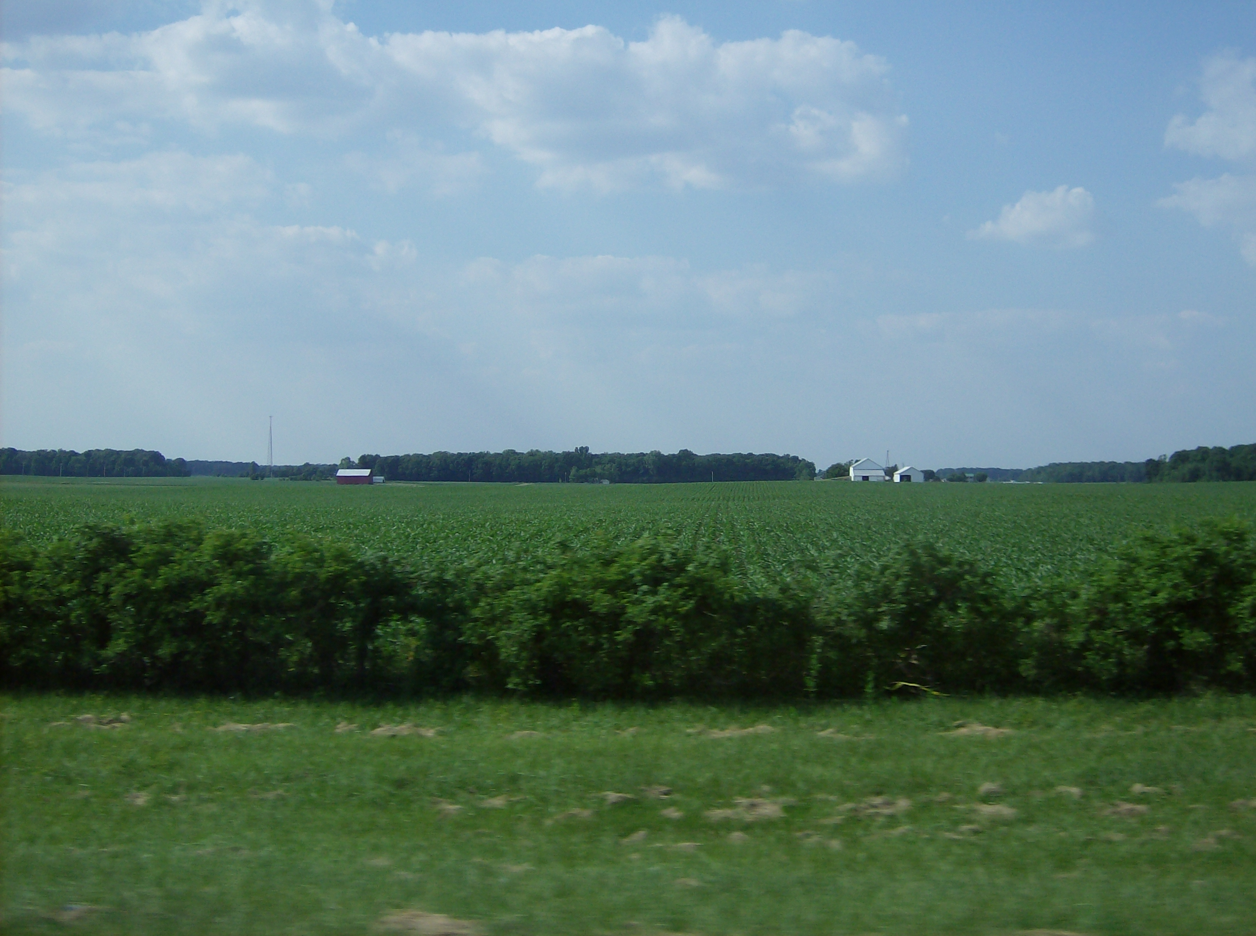 View of farmland in southern Monroe Township, Preble County, Ohio, United States. Picture taken looking northward from Interstate 70.